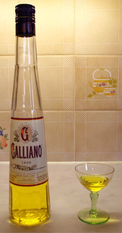 A bottle of French distilled Galliano and some in a glass. The Italian brand looks similar in design. (I originally uploaded it on English Wikipedia, here).